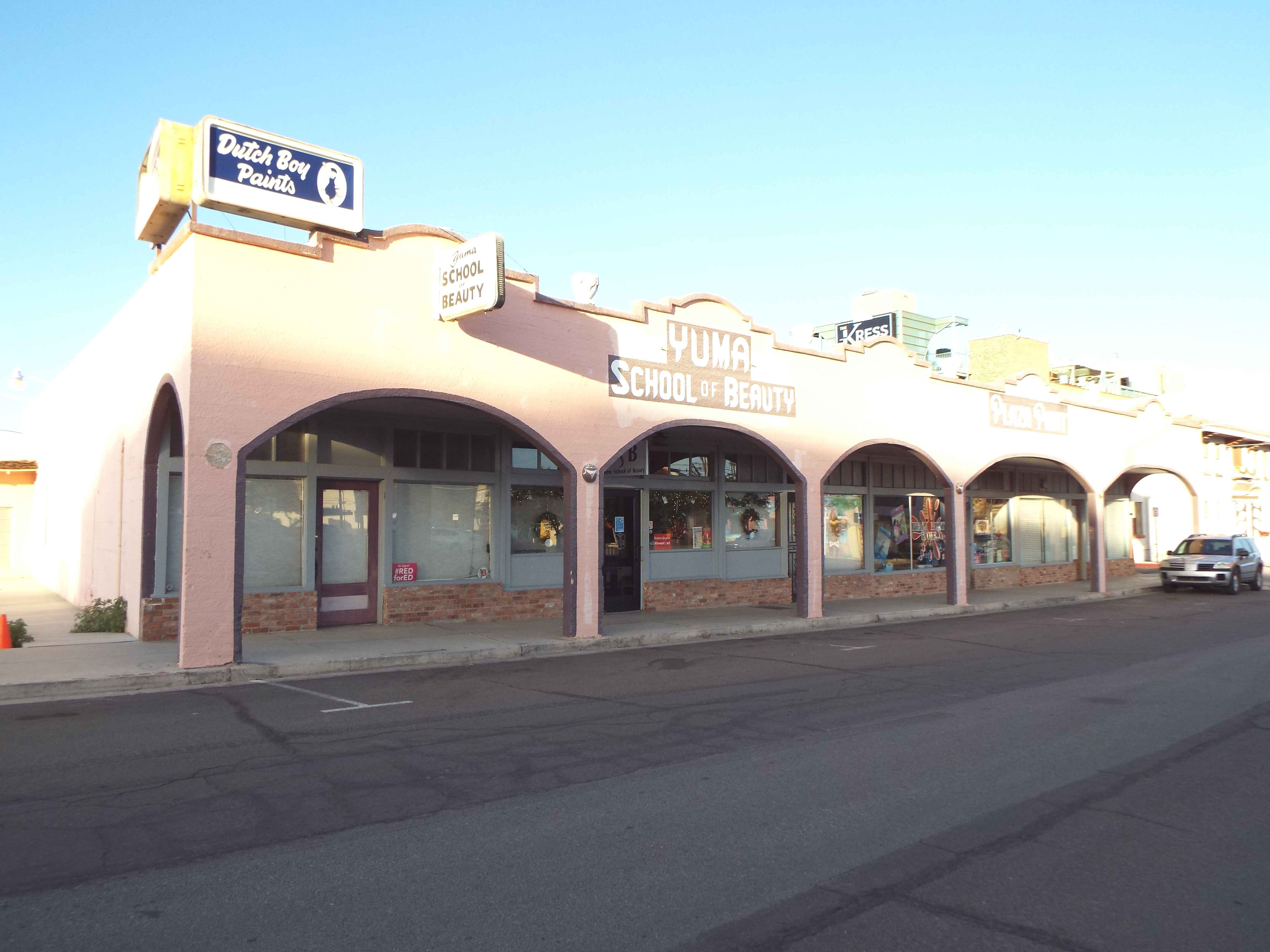 The Cactus Press-Plaza Paint Building - Built in 1925 and located at 30-54 E. 3rd St. It was listed in the National Register of Historic Places in April 24, 1987